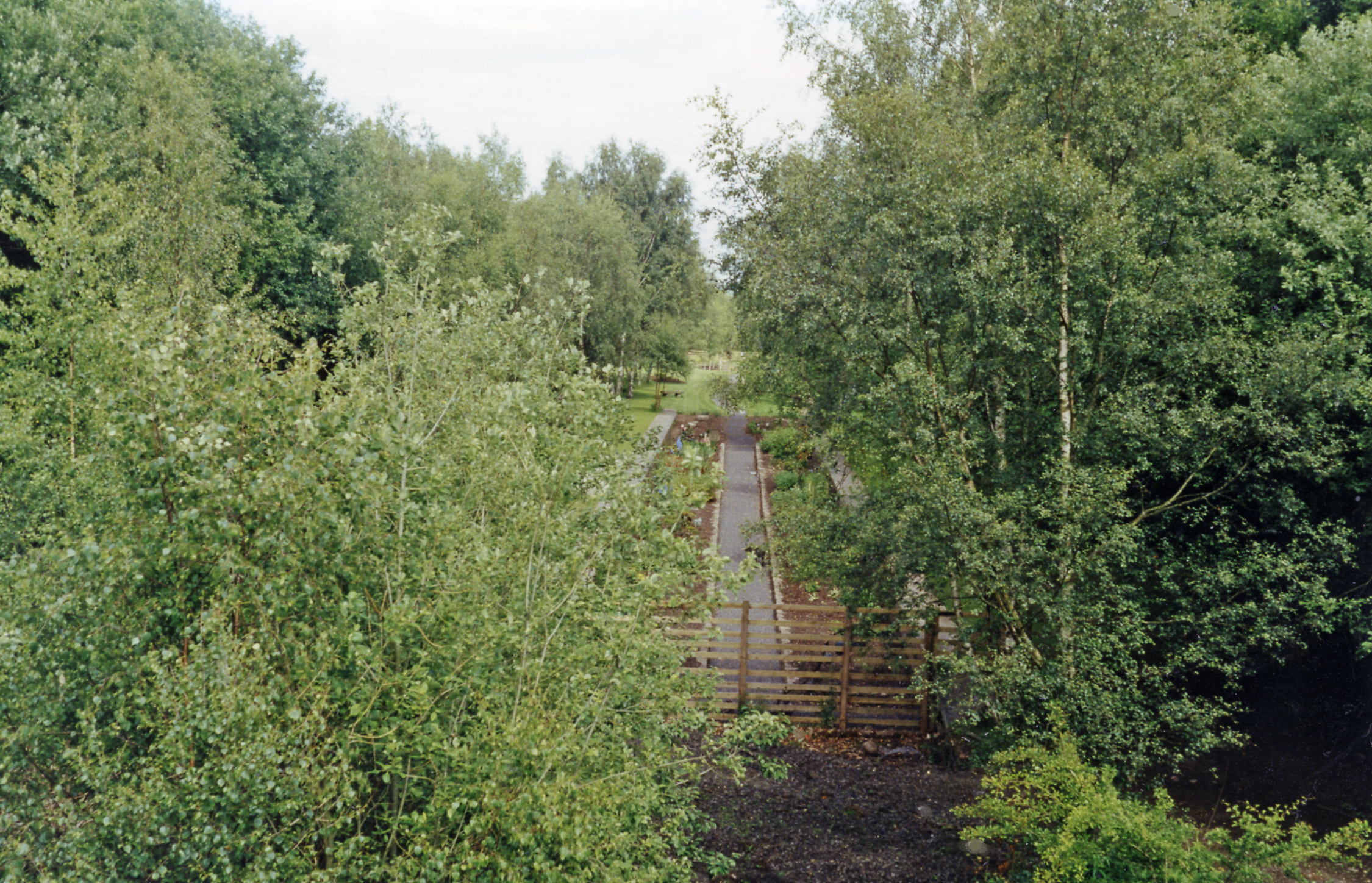 Alyth Junction station site/remains, 1997. View NE, towards Forfar, Bridge of Dun and eventually Aberdeen: ex-Caledonian Strathmore main line (Perth etc. - Aberdeen), most of which between Perth (Stanley Junction) and Kinnaber Junction (near Montrose) was closed from 4/9/67. Just ahead of here the branch to Alyth (closed 2/7/51 for passengers, 25/1/55 for goods) went left, while to the right branched the line to Newtyle and Dundee West (closed 10/1/55 to passengers, 7/9/64 to goods). Somehow much seems to have been incorporated in a garden.